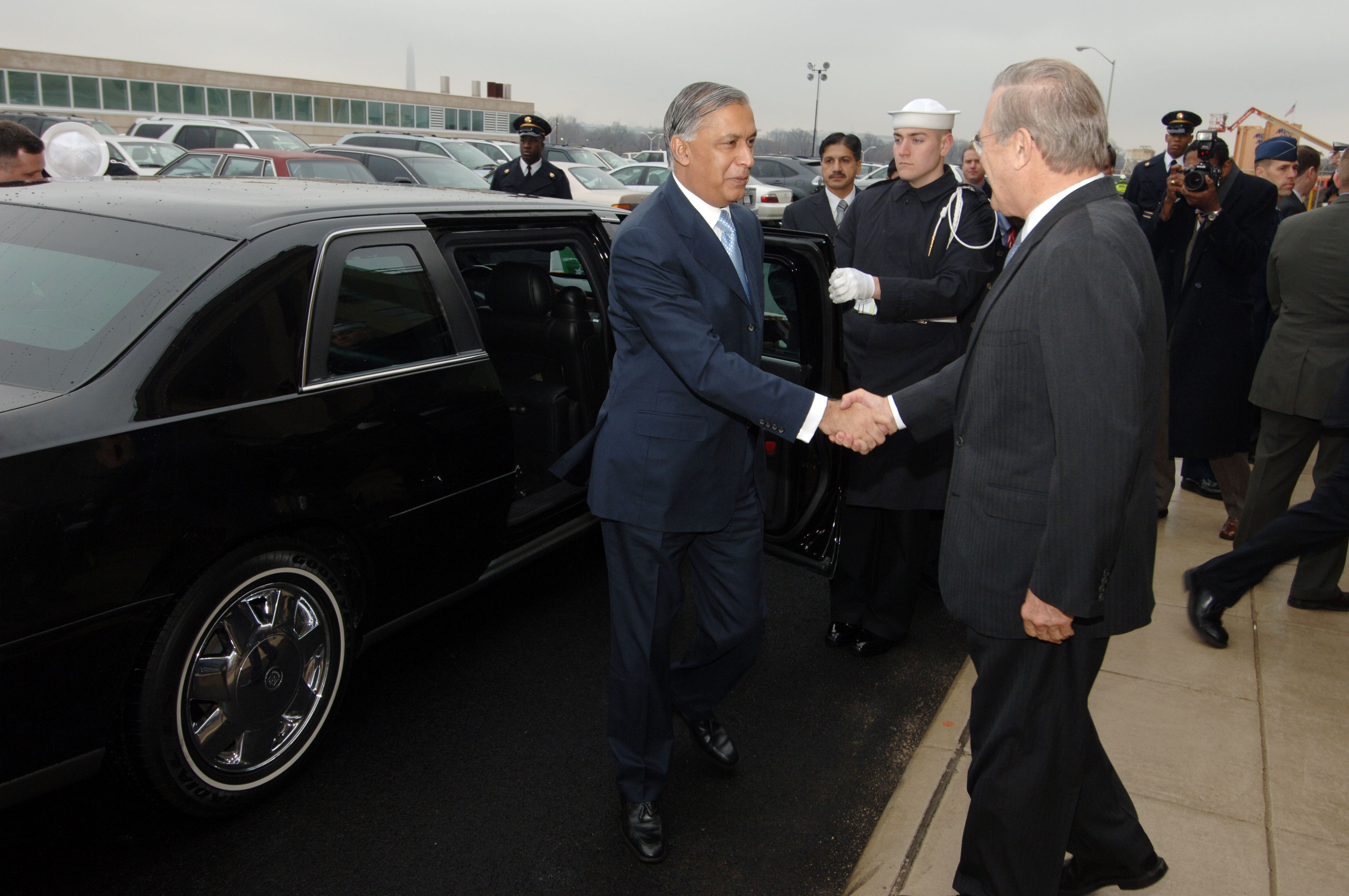 Secretary of Defense Donald H. Rumsfeld (right) greets Pakistani Prime Minister Shaukat Aziz as he arrives at the Pentagon in Arlington